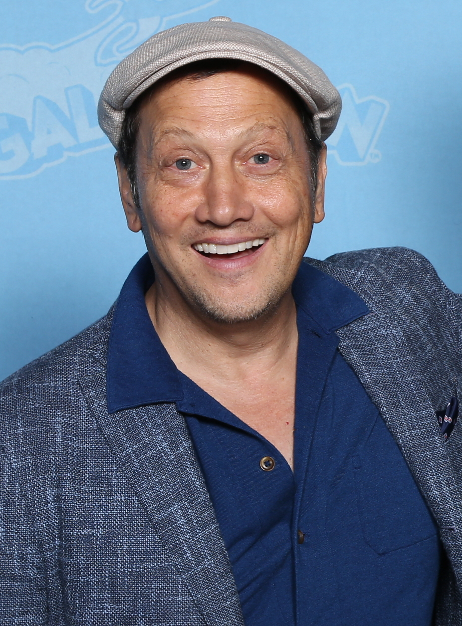 Rob Schneider at GalaxyCon Raleigh in 2019